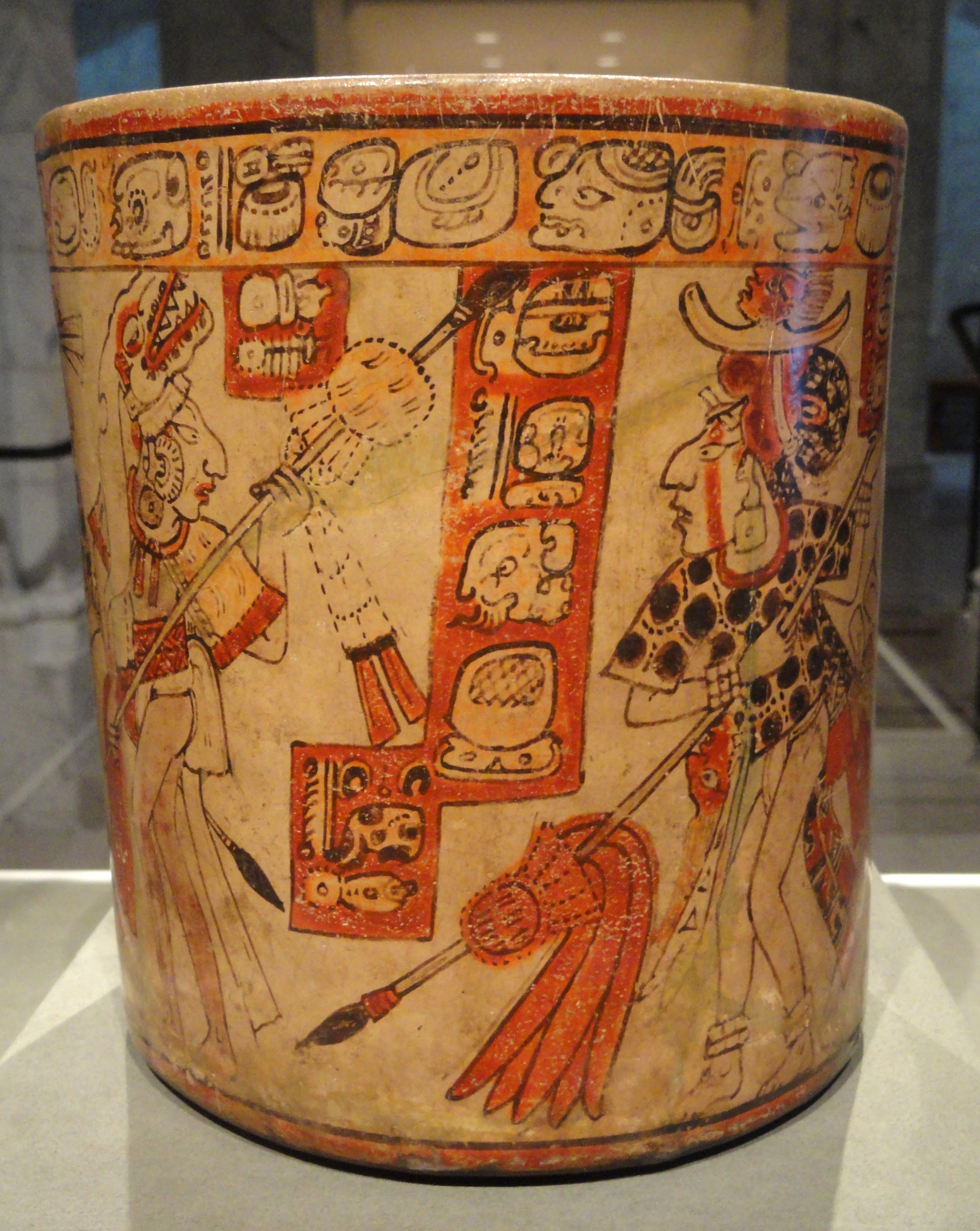 Exhibit in the Cleveland Museum of Art, Cleveland, Ohio, USA. This artwork is old enough so that it is in the public domain.